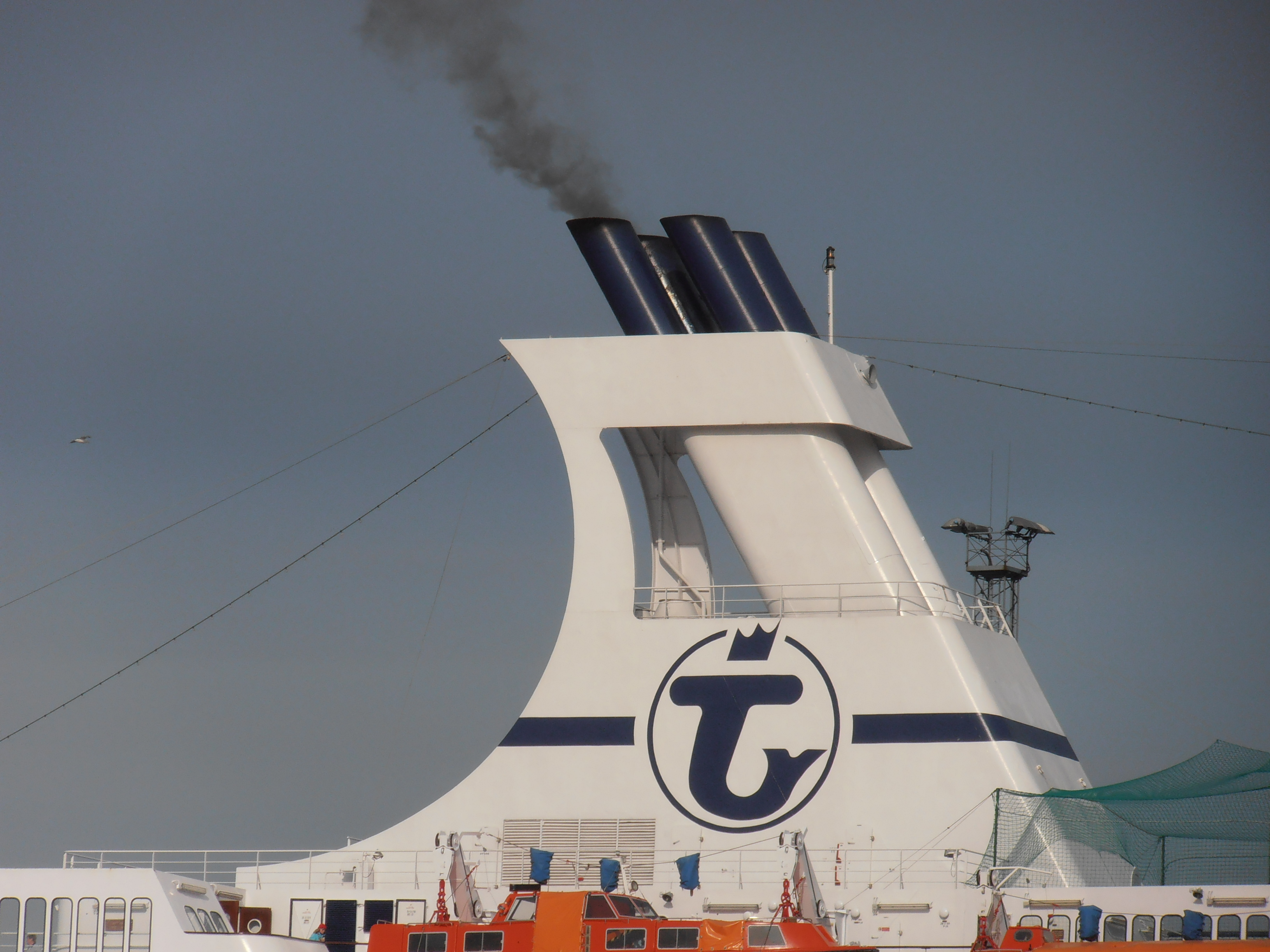 Astor Funnel Tallinn 31 August 2012